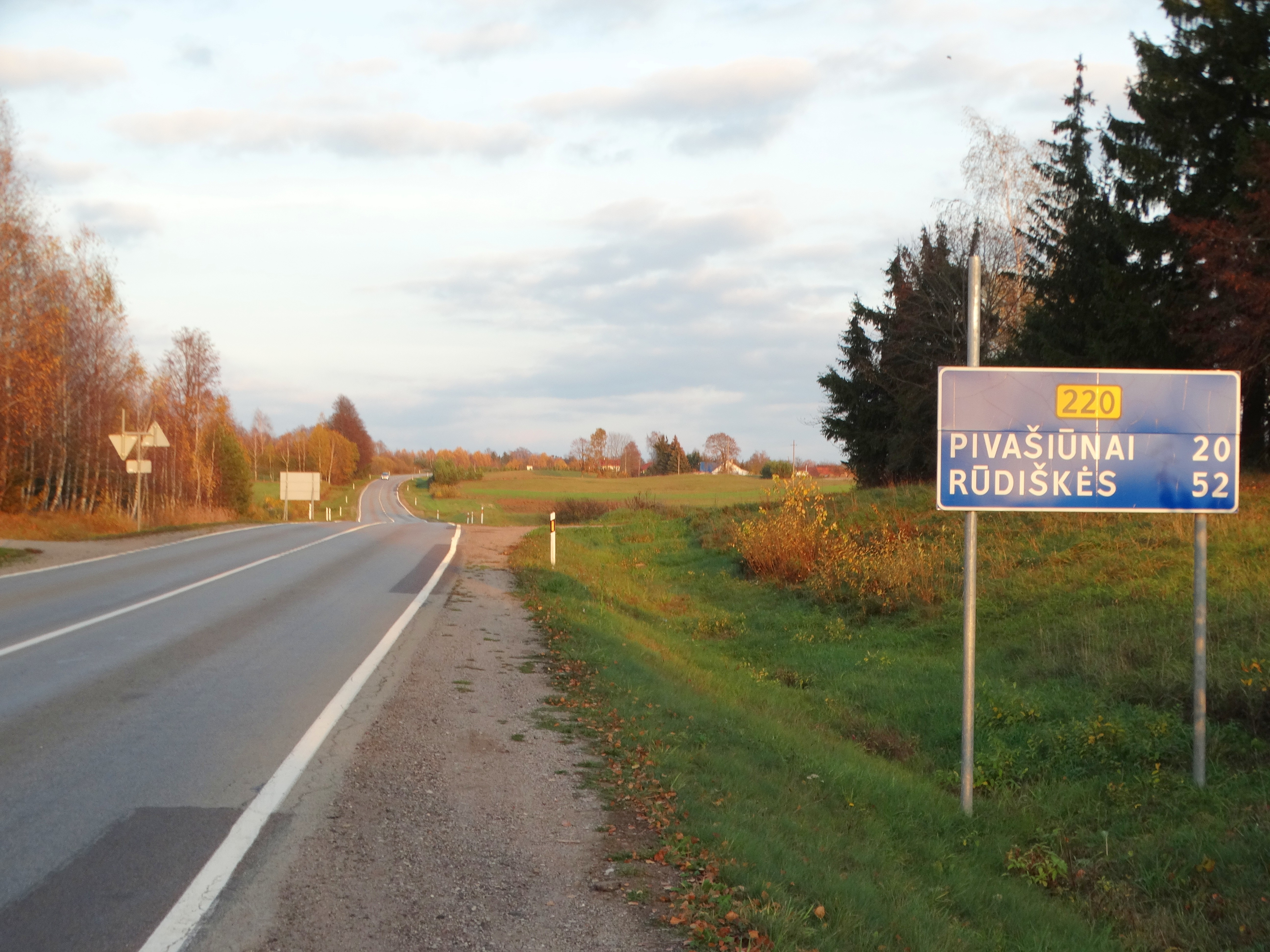 Regional road 220, near Alytus, Lithuania